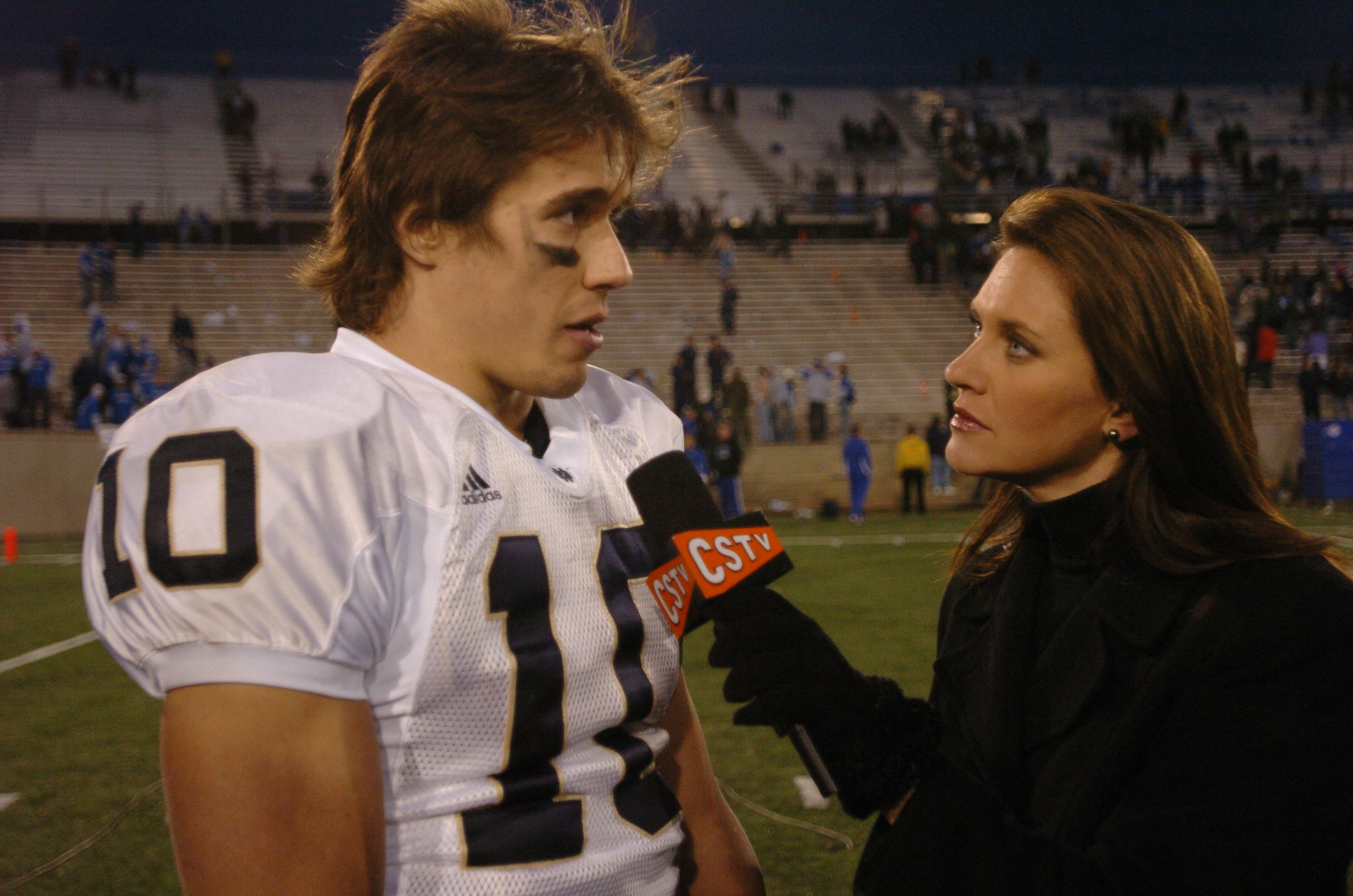 Alex Flanagan interviewed by Anne Marie Anderson.